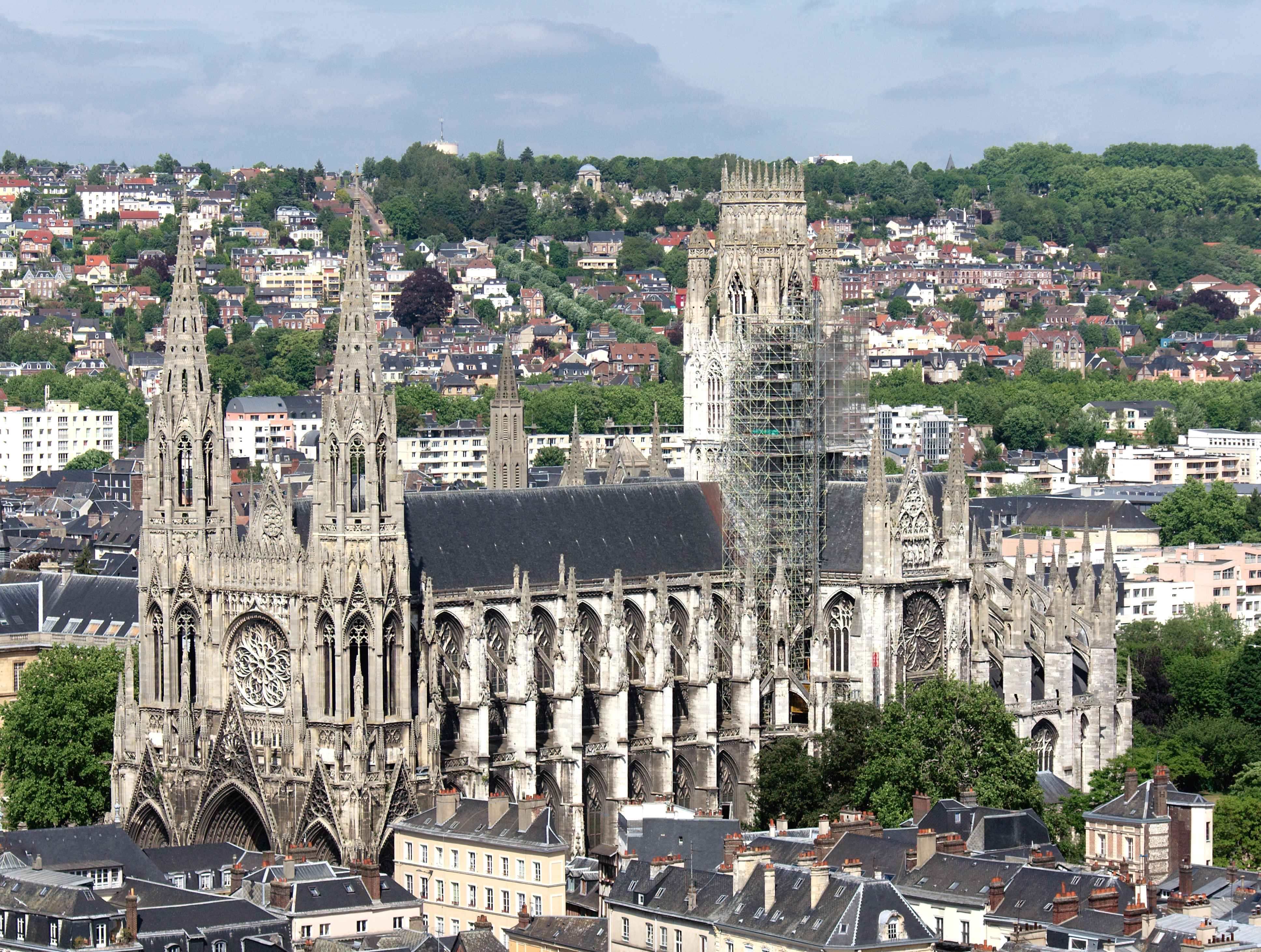 Saint Ouen church (Gothic style) in Rouen, France